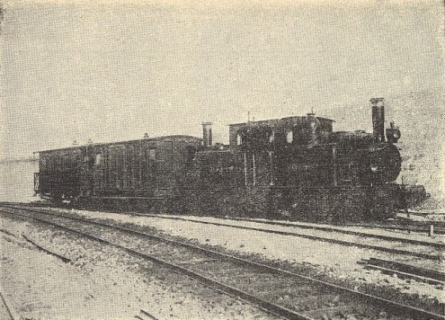 Locomotive No. 2 ("Rio Douro") of the CCFPPF - Companhia do Caminho de Ferro do Porto à Póvoa e Famalicão (Company of the Railway from Porto to Póvoa and Famalicão), in Portugal. This photograph was published in the Gazeta dos Caminhos de Ferro magazine No. 1381, of 1st July 1945, and scanned by the Hemeroteca Municipal de Lisboa.